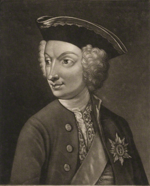 Mezzotint of a portrait of Sir Michael Newton, 4th Bt. (c. 1695-1743), by an unknown artist.